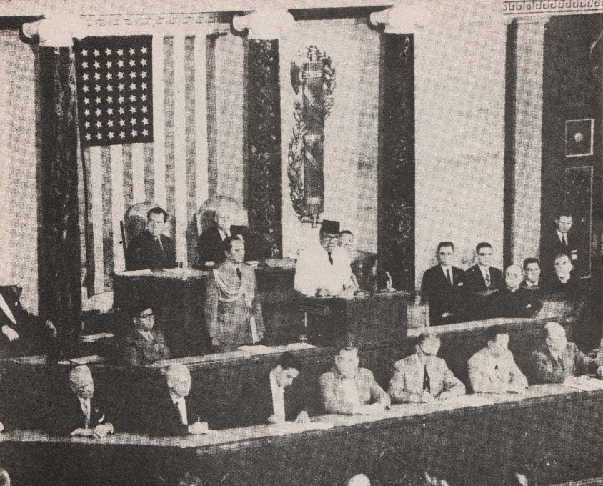 Sukarno speaking to US Congress